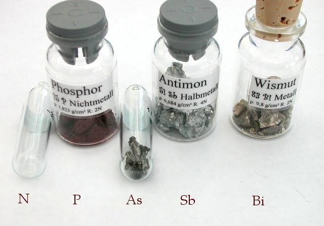 Assortment of nitrogen group elements (pnictogens).